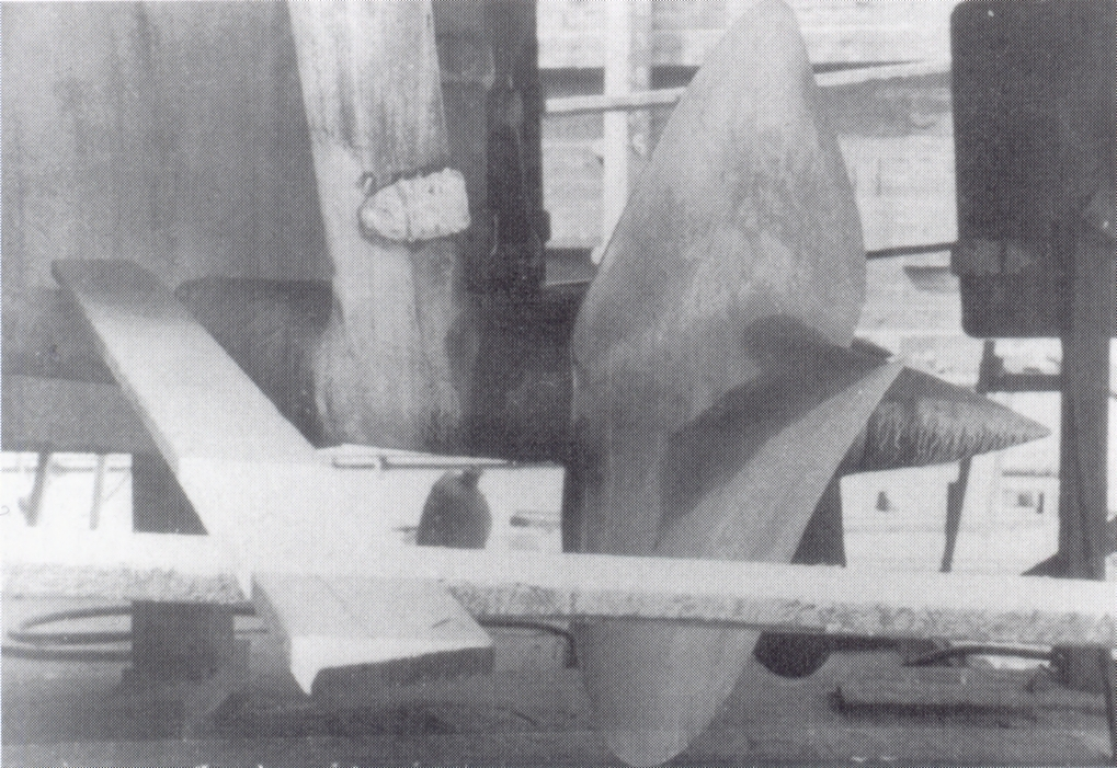 Former T 35 as DD 935, August 1945 in Boston, Massachusetts. Portside propeller.